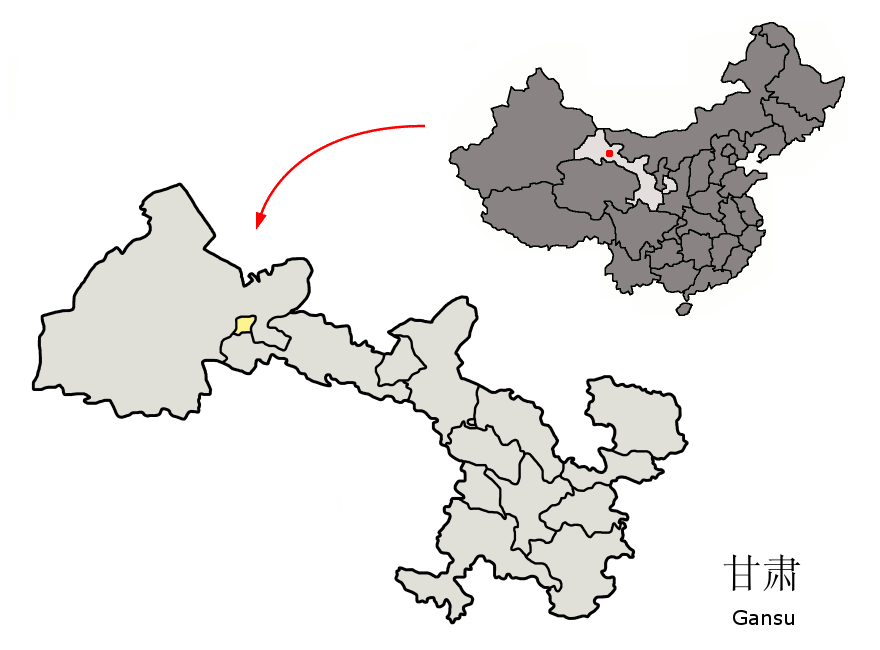 Location of Jiayuguan Prefecture (yellow) within Gansu province of China Map drawn in september 2007 using various sources, mainly : Gansu province administrative regions GIS data: 1:1M, County level, 1990 Gansu Counties map from